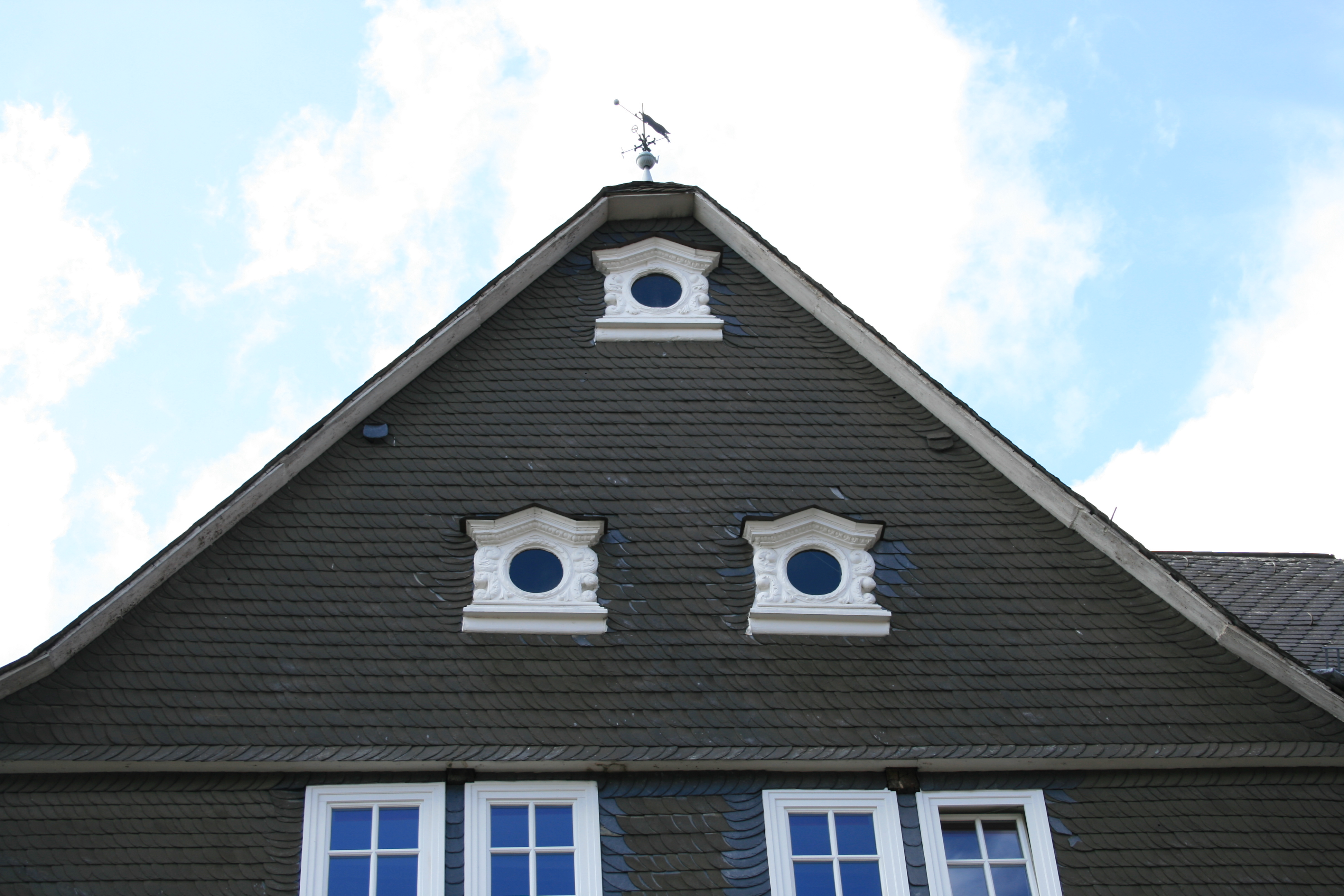 Germany, Hesse, Biedenkopf/Lahn: Residential and commercial building on Market Square, first mentioned in 1648. Originally an urban wine house, post office Stapp (also: Stapp'sches Haus), then hotel and pub "Zum Hirschen". From 1919 the building housed a pharmacy, last commercial use: Hirsch-Apotheke (Pharmacy). Special feature: the three round windows on the gable are relics of the 1774 sold for demolition hunting lodge Katzenbach.